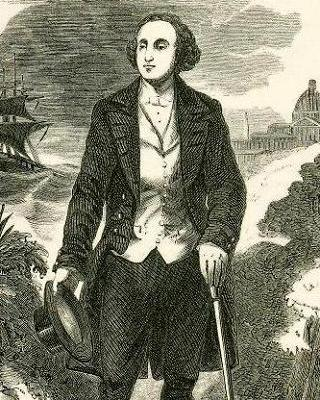 George Cabot, engraving from "Recollections of a Lifetime, or, Men and Things I Have Seen," by Samuel Griswold Goodrich; Miller, Orton & Mulligan, New York & Auburn, 1856